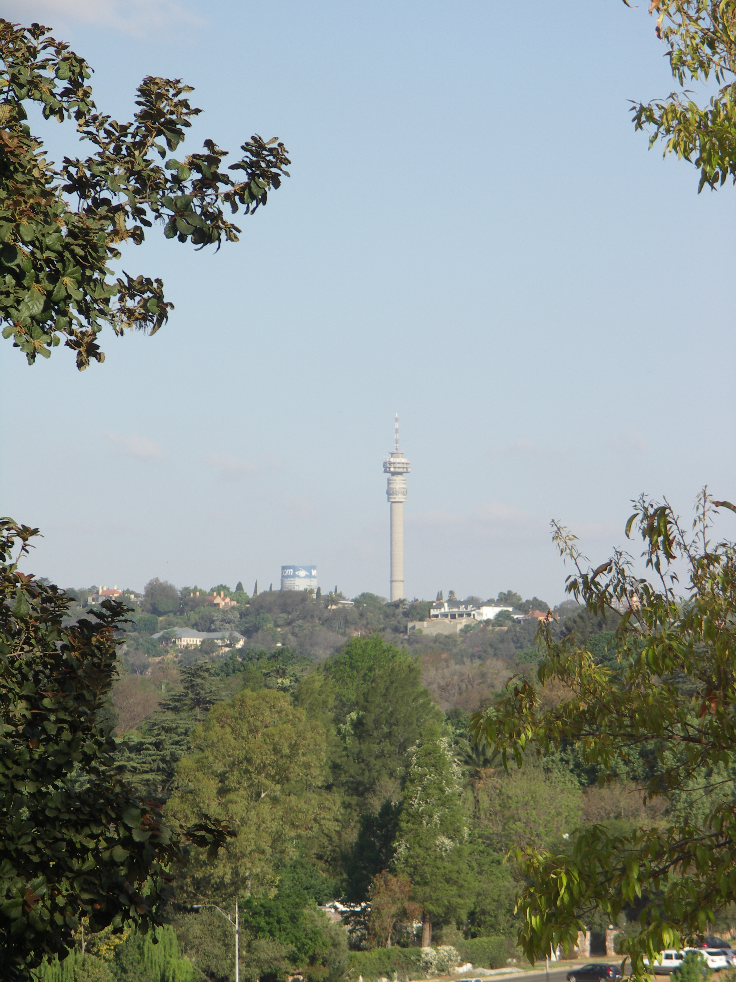 Hilbrow Tower and top of Ponte Building seen from the Johannesburg Botanical Garden